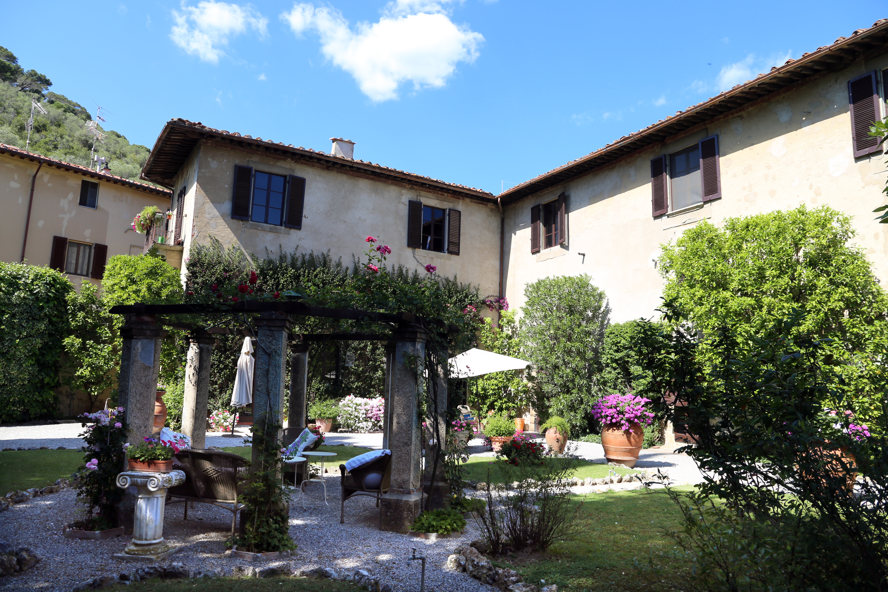 Villa Rita (Vicopisano)